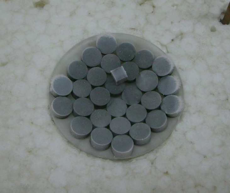 Modified picture of yttrium barium copper oxide (YBCO), taken at UNSW@ADFA, Australia. 钇钡铜氧，摄于澳大利亚UNSW@ADFA，经修改。